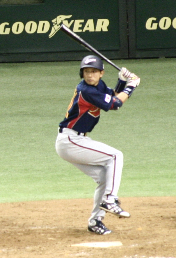 Munenori Kawasaki, infielder of the Japan national baseball team, at Tokyo Dome.